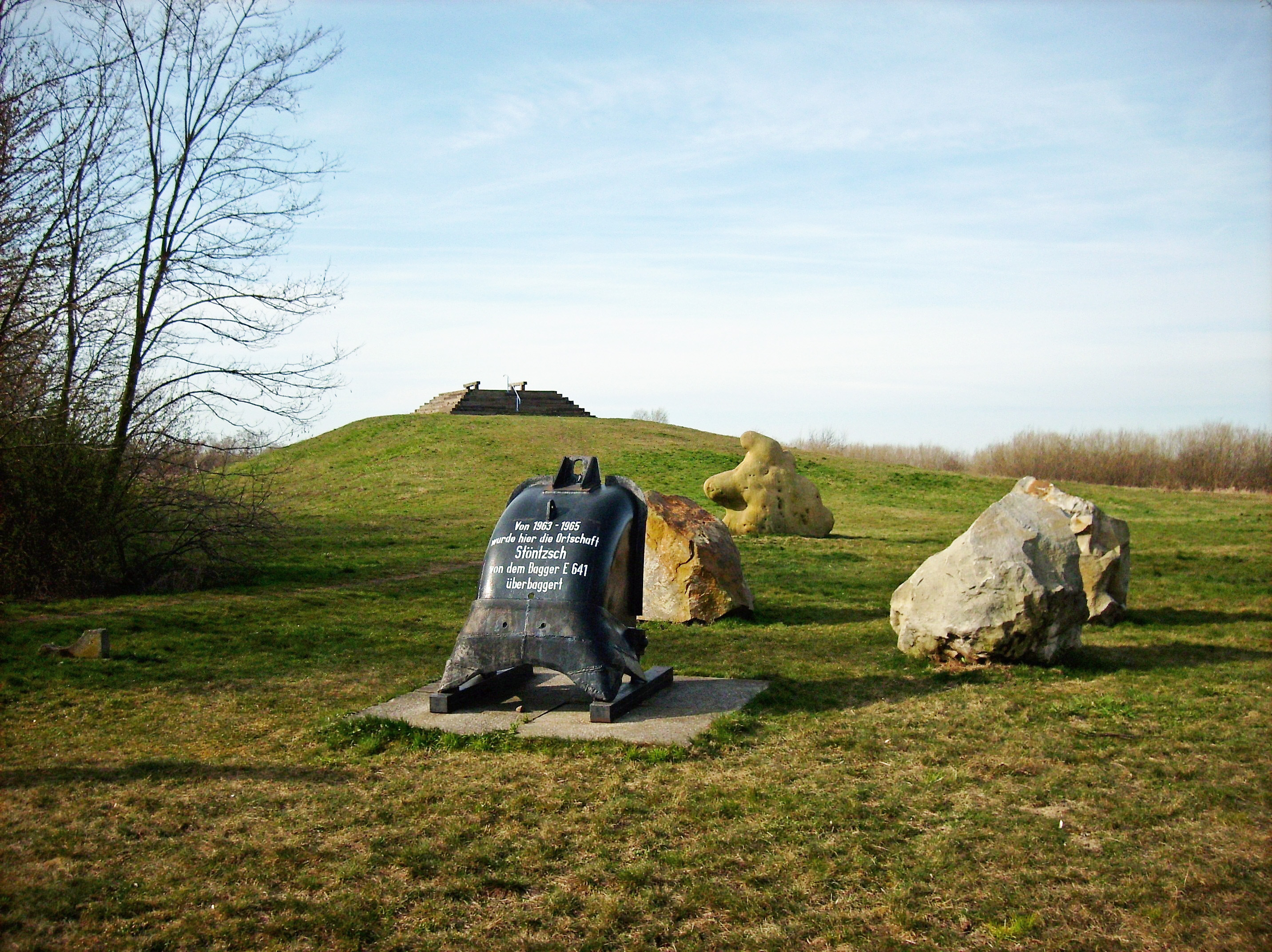 Memorial to the village of Stöntzsch, demolished for an opencast mine, at Stöntzsch Hill near Pegau (Leipzig district, Saxony)